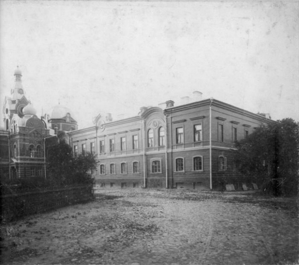 Orthodox St. Cross Church in Miensk